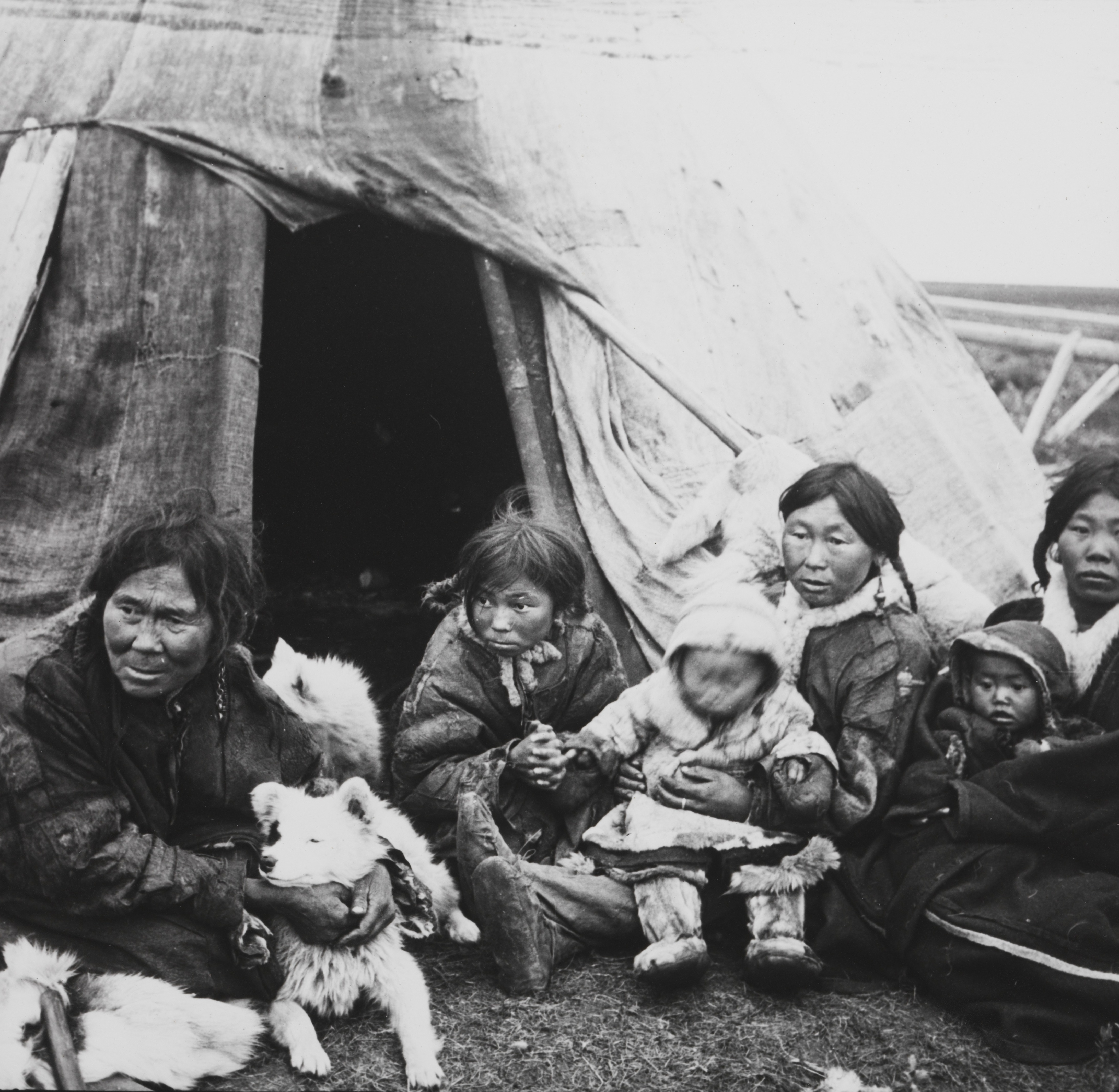 Nentsy women (ethnic group), and children in front of their tent. One of the women is holding her hands around the neck of a dog. One of the pictures from the journey to Siberia between Aug. 2 and Oct. 26, 1913. Fridtjof Nansen started his trans-Siberian travel on a freighter from Oslo to Yenisei. The journey went through parts of the Northeast Passage, which was to be opened as a shorter trading connection between Western Europe and the Far East.